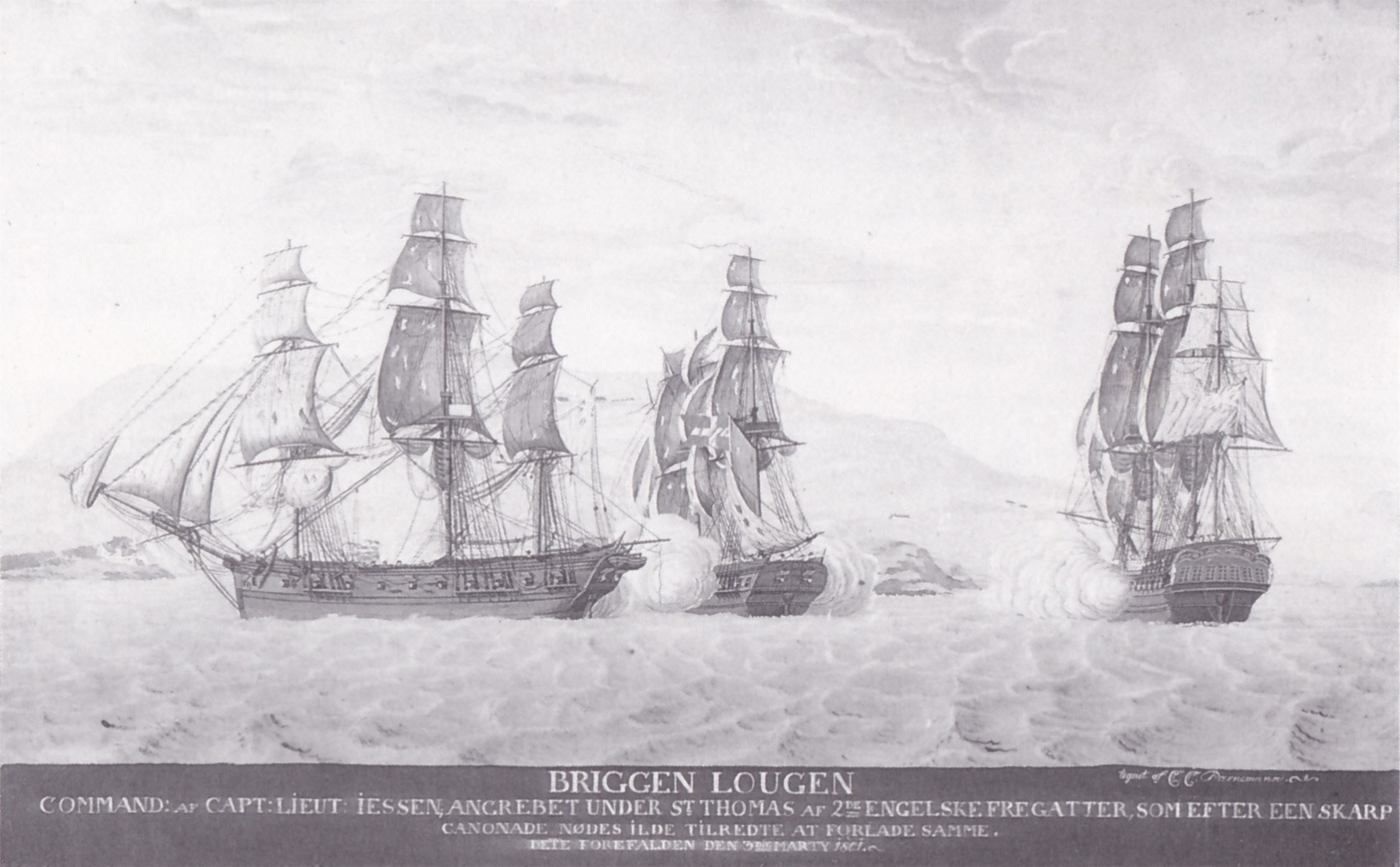 The Danish brig Lougen is seen her on March 3 1801, battling the HMS Arab and the privateer Experiment. The gouache by Parnemann measures 41.5 x 65.5 cm. Source: Hanne Poulsen, Danske Skibsportrætmalere, page 32. Danish Maritime Museum Native nameM/S Museet for SøfartLocationHelsingør, DenmarkCoordinates56° 02′ 20.29″ N, 12° 36′ 58.18″ E Established1914Web control : Q5219764 VIAF: 124161087 ISNI: 0000 0001 2106 8969 LCCN: n81119663 NLA: 35402300 GND: 1040988-9 WorldCat institution QS:P195,Q5219764